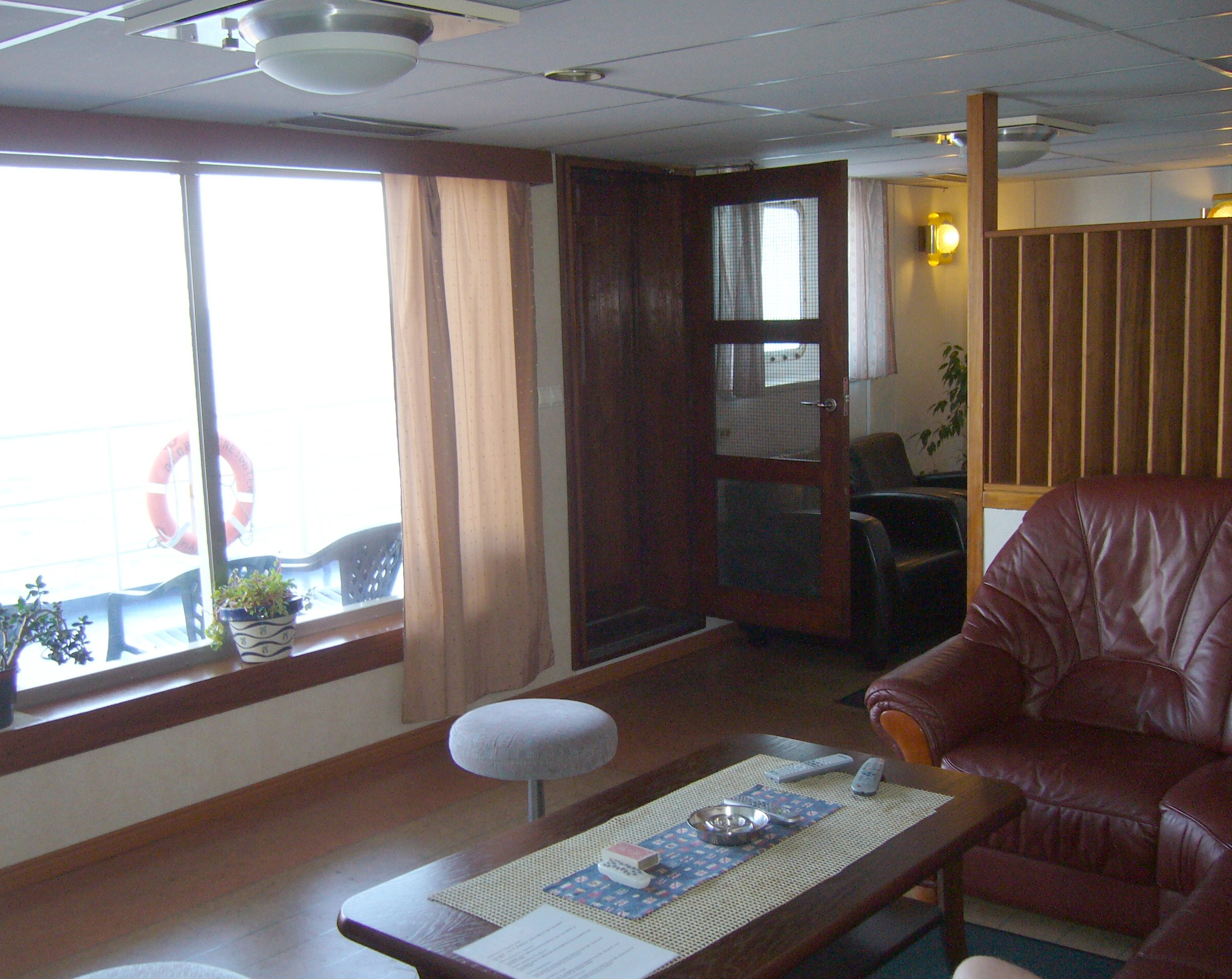 Room for passenger in Finnish cargo ship M/S Global Freighter.